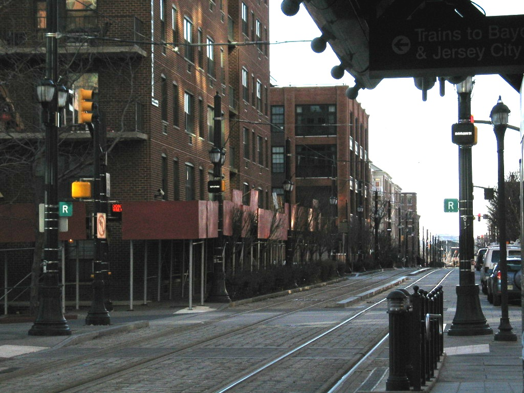 Looking westward along the Essex Street in Jersey City, NJ